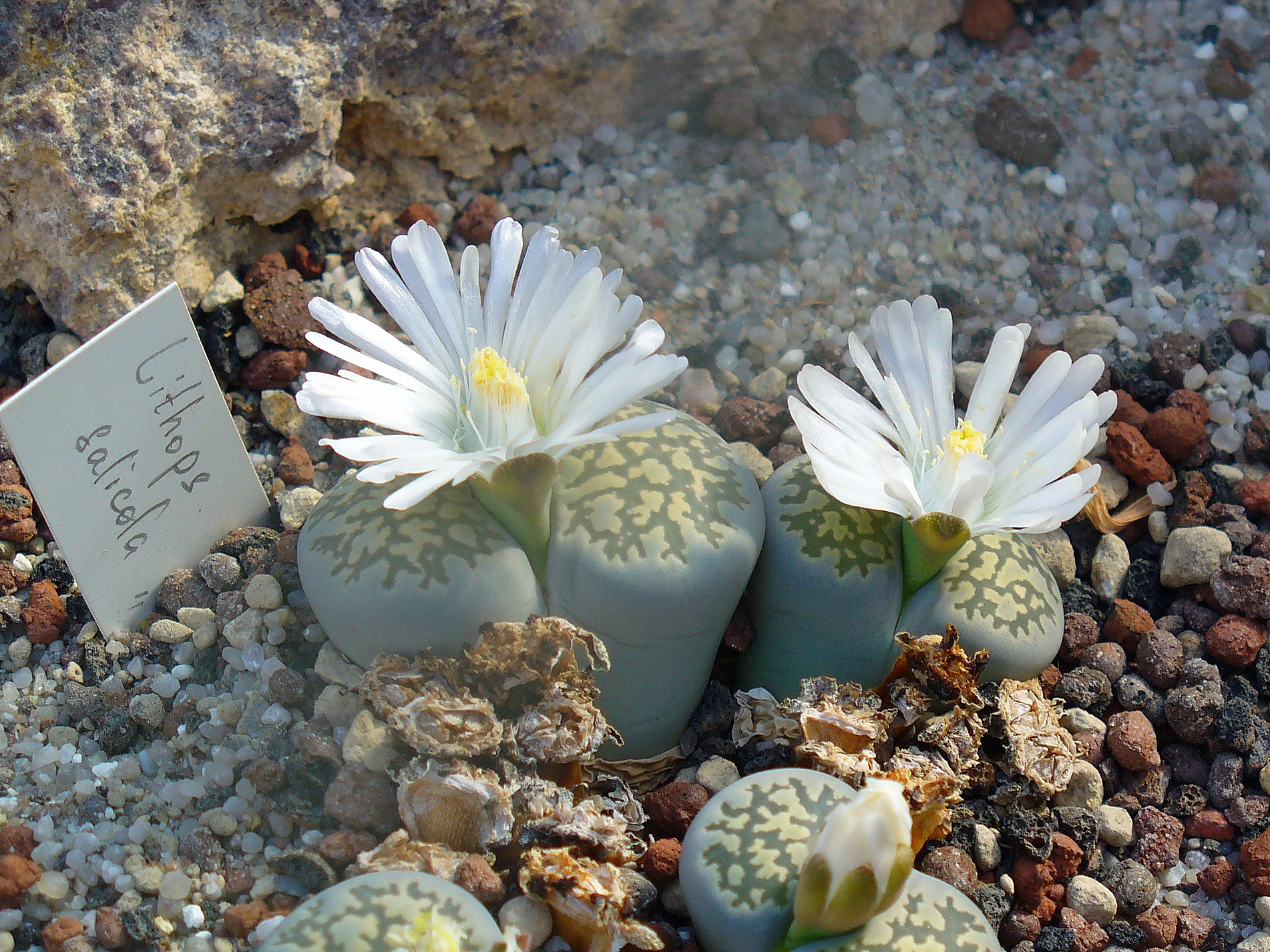 Botanic Garden, University of Heidelberg, Germany.